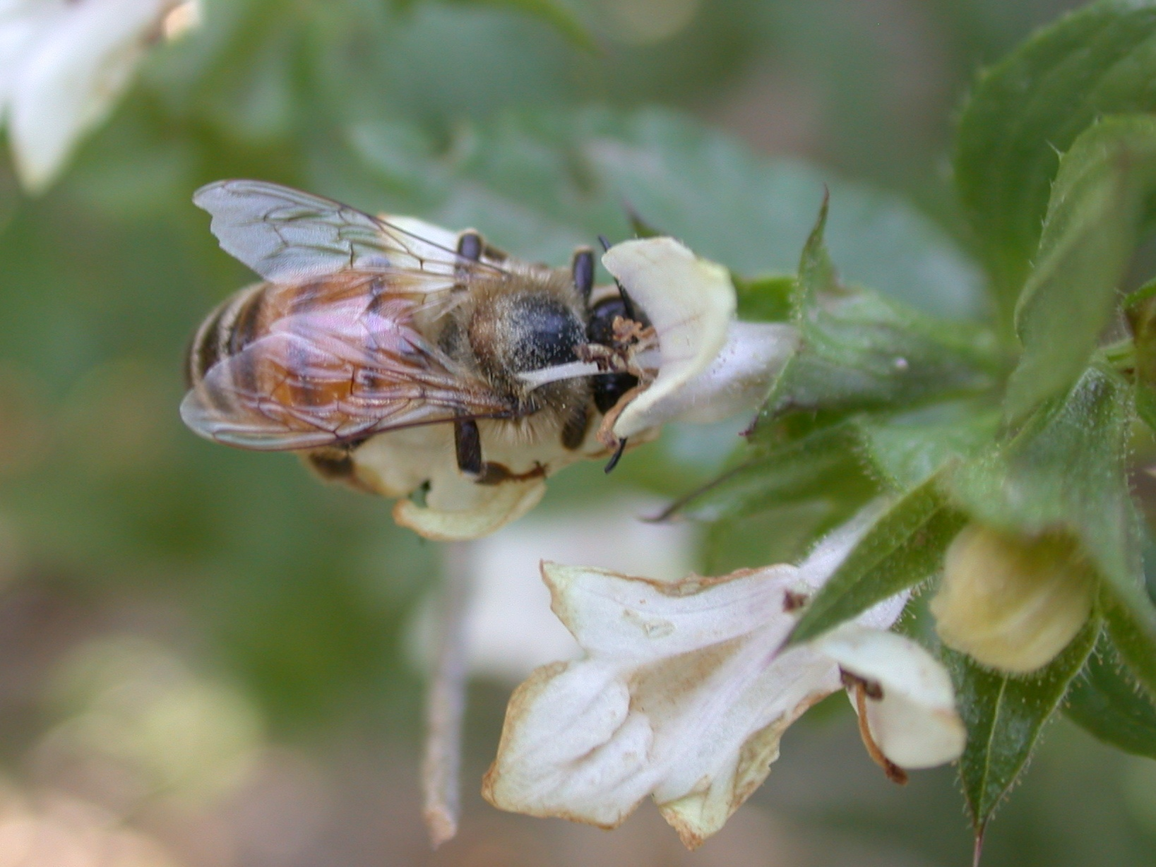 European honeybee pollinating Prasium majus, Reches Etzba, Mount Carmel, Israel, March 12, 2006.